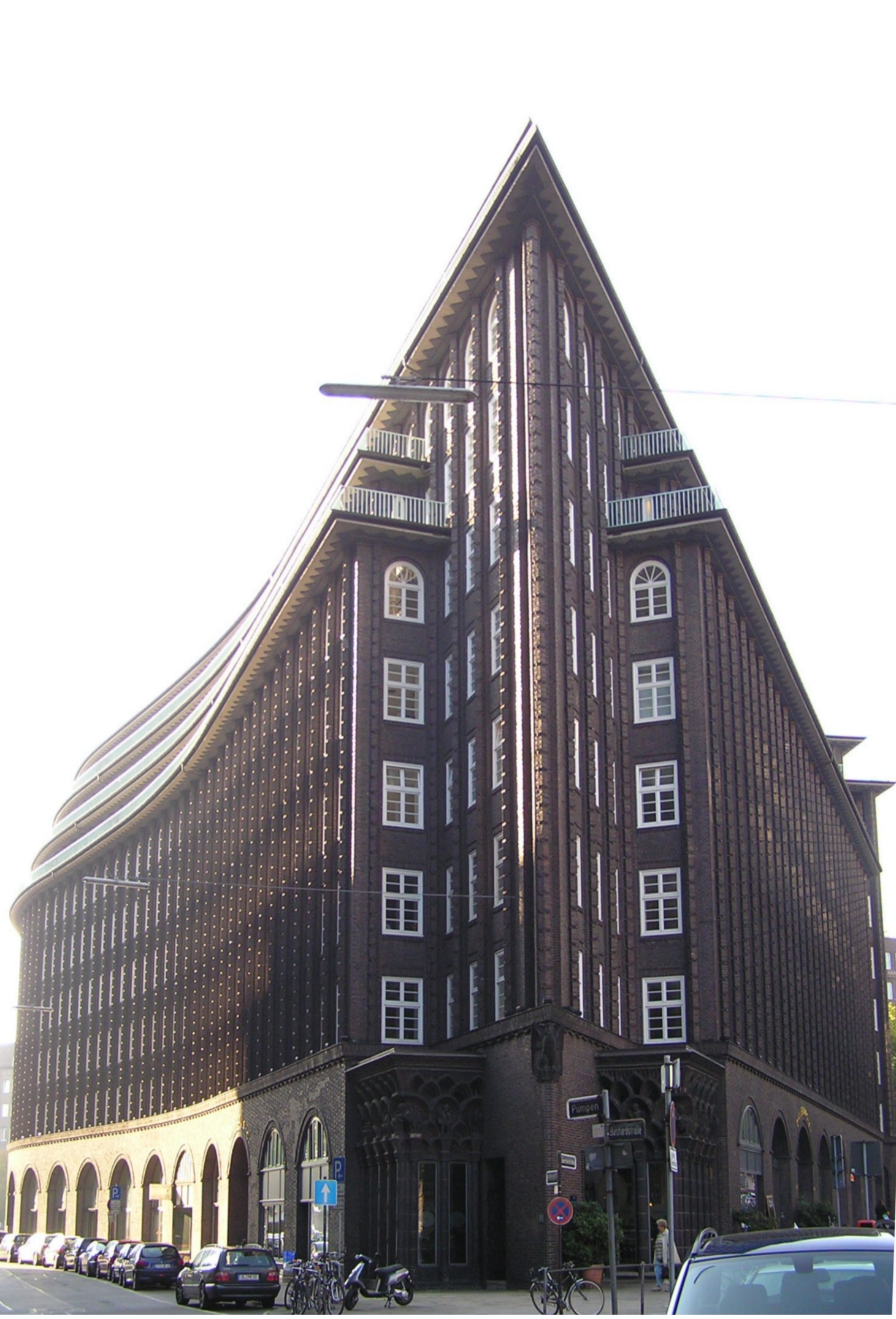 Chilehaus (Chile house) by Fritz Höger in Hamburg This is a photograph of an architectural monument.